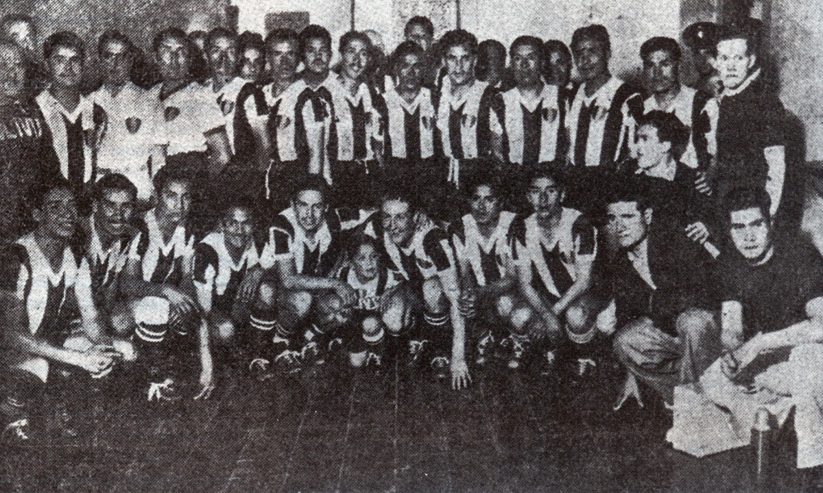 Bolivia national football team during the 1946 Campeonato Sudamericano played in Argentina